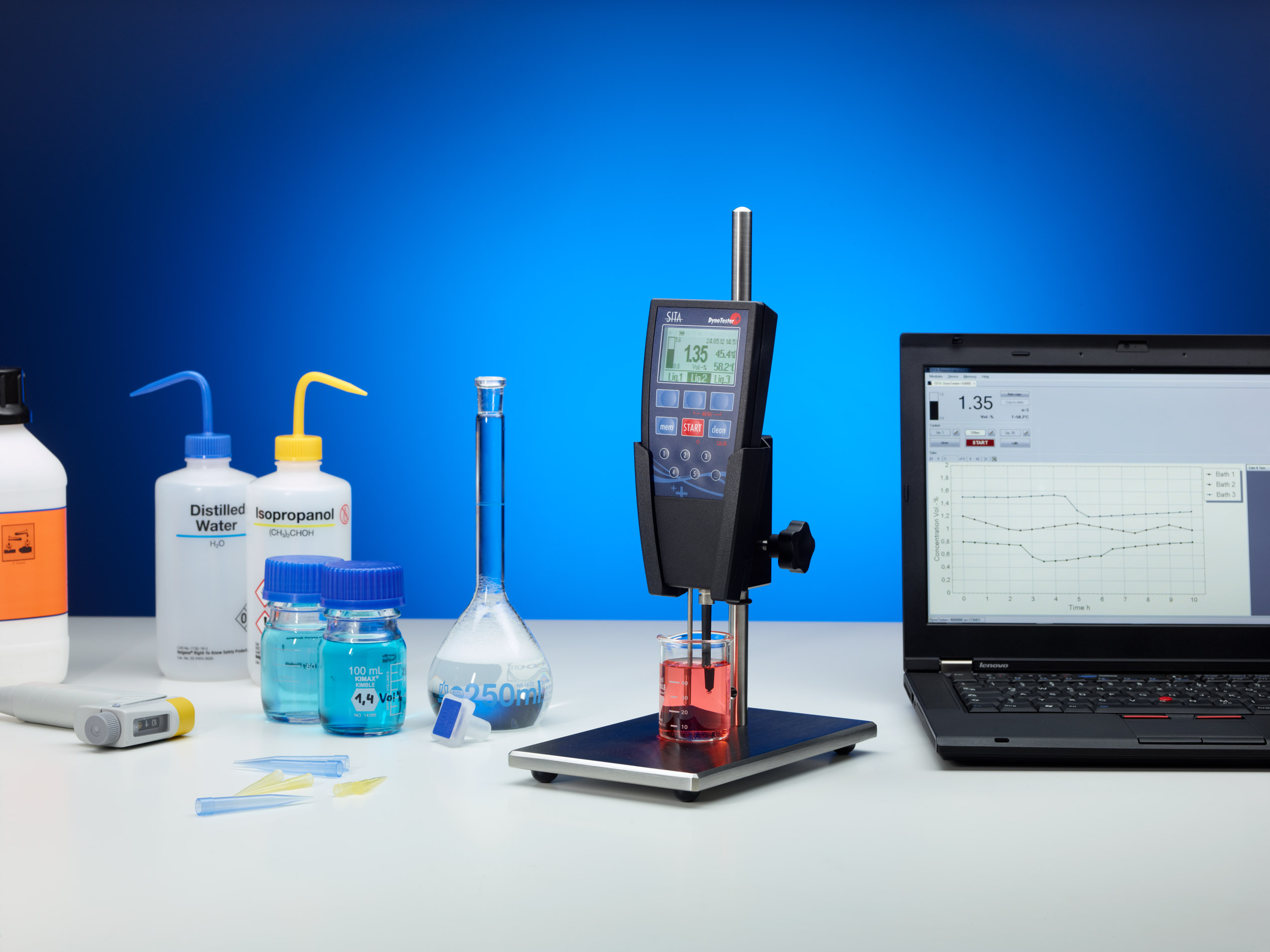 Bubble pressure tensiometer measures the dynamic surface tension.